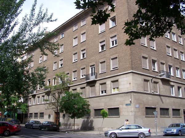 Facade of Colegio Mayor Miraflores, in Zaragoza, Spain